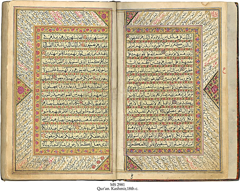 ManuScript in Arabic on polished paper, Kashmir,18th c., 339 ff., 22x14 cm, single column, (15x9 cm), 14 lines in Naskh book script, within a thick frame of gold, orange, green and blue, the lines separated by a thick gold line, verses separated by gold dots, each sura introduced with a panel of gold and blue with script in white, 9 double openings with full borders with extensive and rich foliage and floral designs in gold and colours by a highly skilled artist. Binding: Kashmir, 18th c., lacquered boards with extensive foliage and floral designs in gold and colours in the style of Kashmir carpets, on both sides of the boards, later red leather spine, sewing covered. Provenance: 1. Private collection, London (1980'ies-2000).